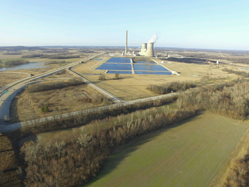 February, 2016